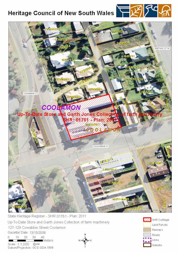 Up-To-Date Store: SHR Plan 2011